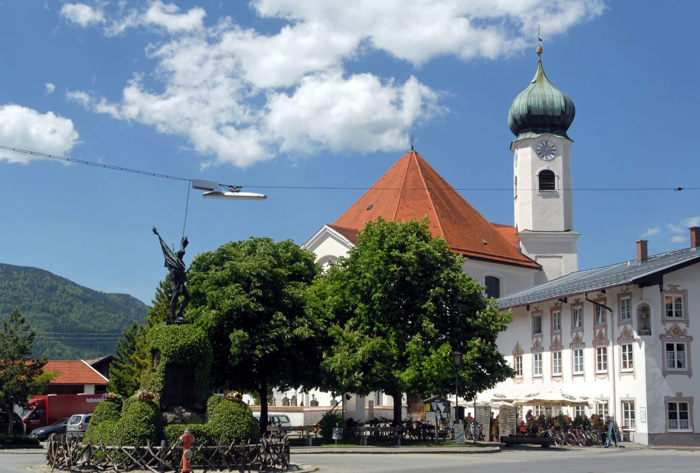 church St. Clemens in village Eschenlohe